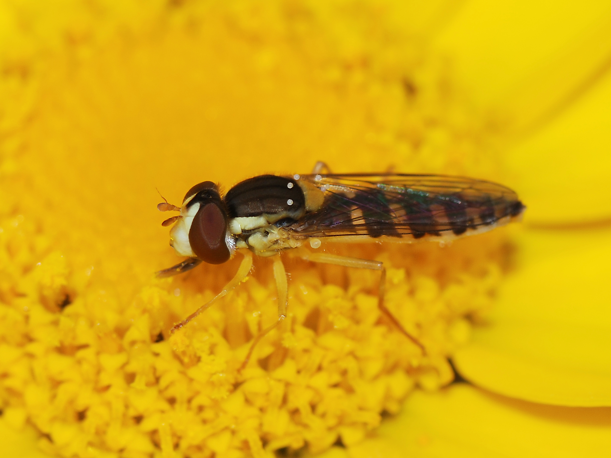 A female hoverfly (Sphaerphoria cf. scripta)